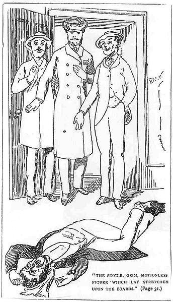 Illustration for A Study in Scarlet by Charles Altamont Doyle (Arthur Conan Doyle's father).